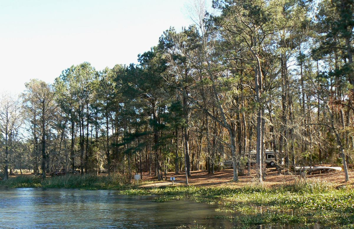 Three Rivers State Recreation Area, Jackson Co., Florida; camping site along shore of Lake Seminole